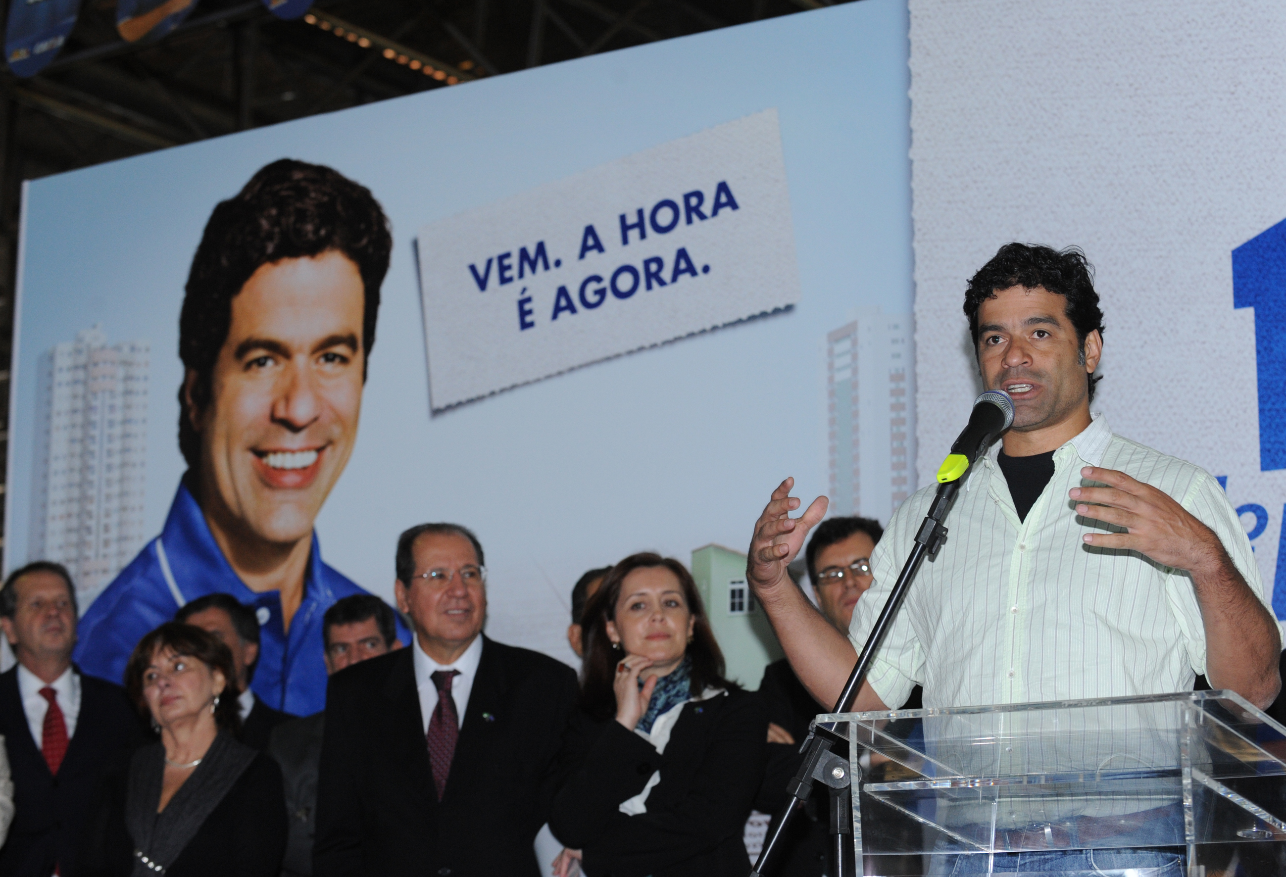 Raí in 2009, in Feirão Caixa da Casa Própria